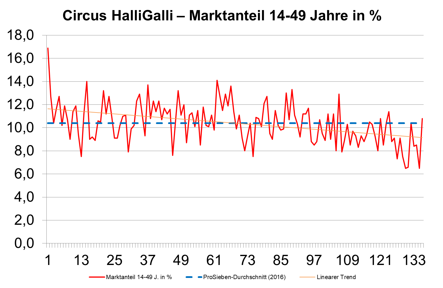 Diagram of the ratings of Circus HalliGalli